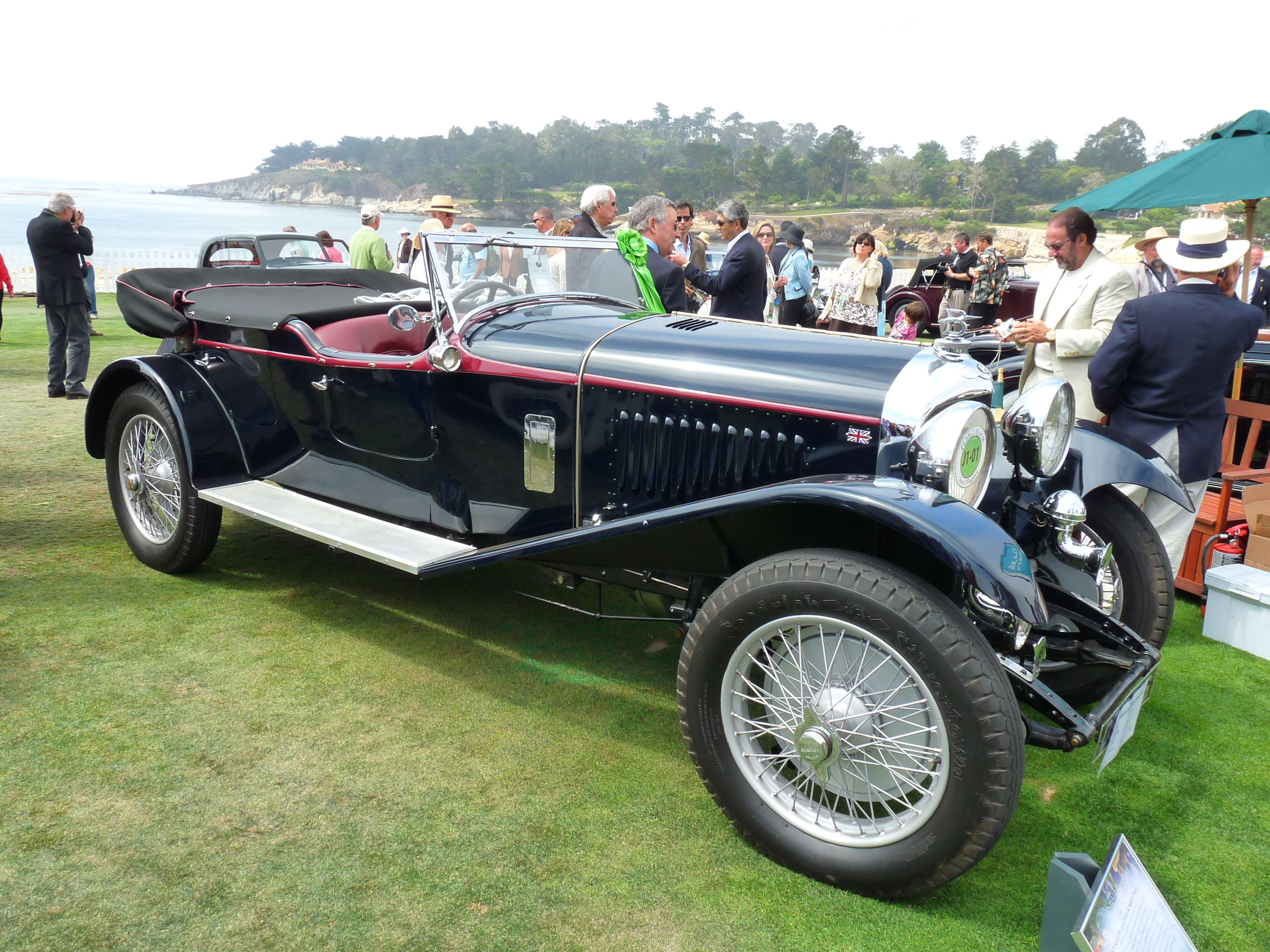 Bentley 4½ Litre Thrupp & Maberly open 4-seater tourer 1929 original coachwork Pebble Beach Concours dElegance, Aug 16, 2009 Chassis MR3390 Engine MR3393 Reg MS 34 delivered May 1929